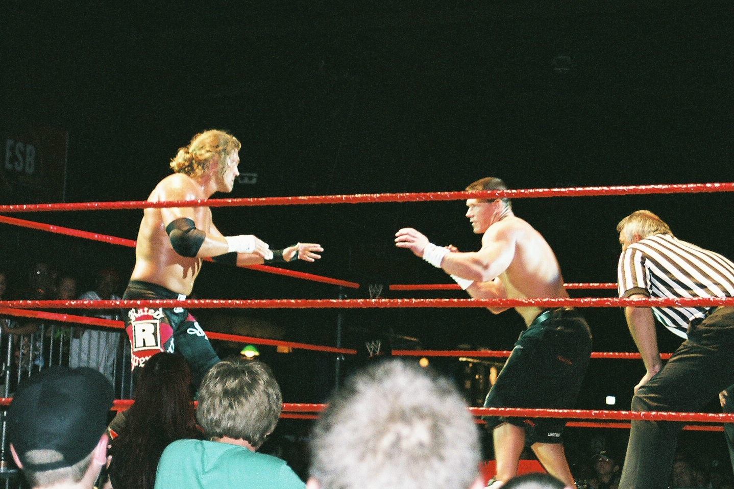 Nice face off shot WWE RAW 7/29/06 Hampton Beach, NH